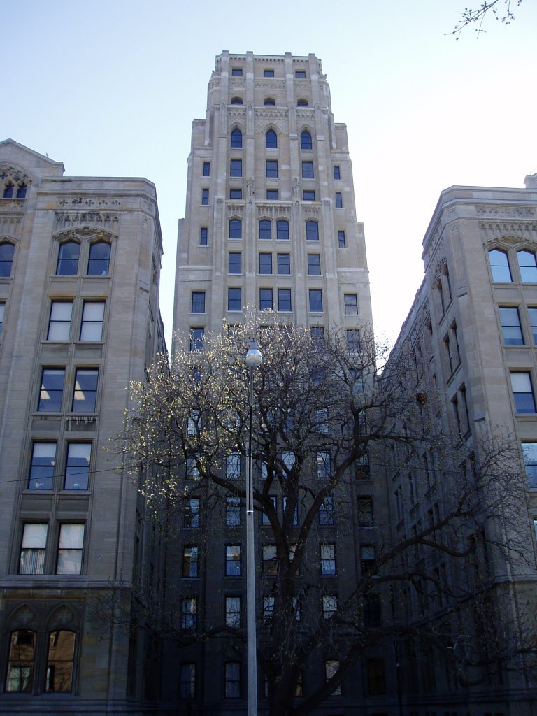 Taken by SimonP in April 2005